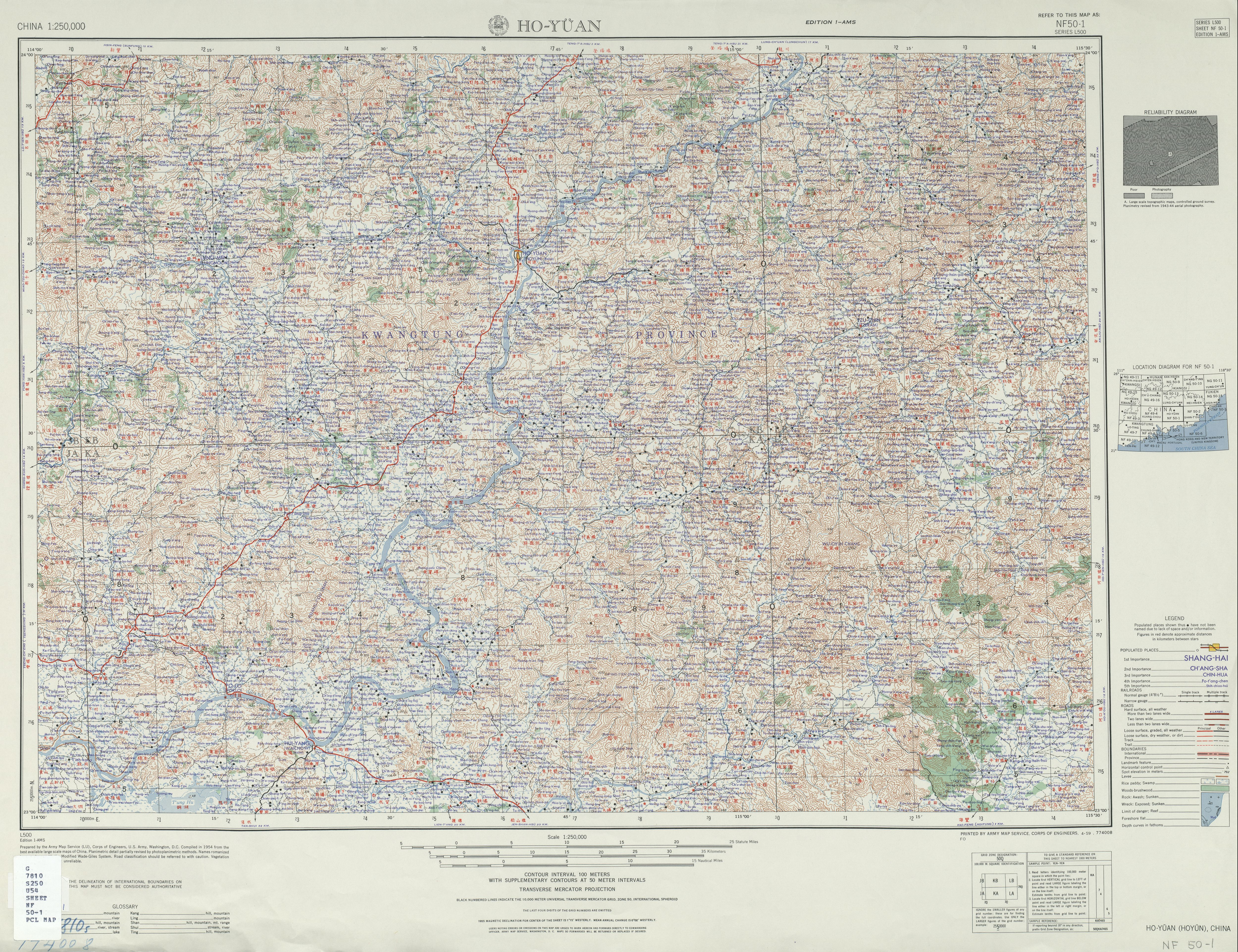 China AMS Topographic Maps